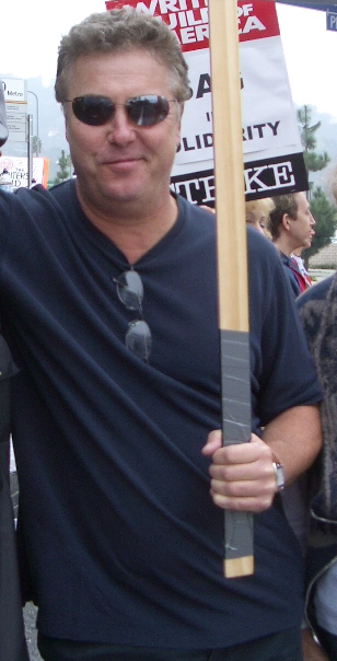 Naren Shankar, William Petersen and Carol Mendelsohn of "CSI."